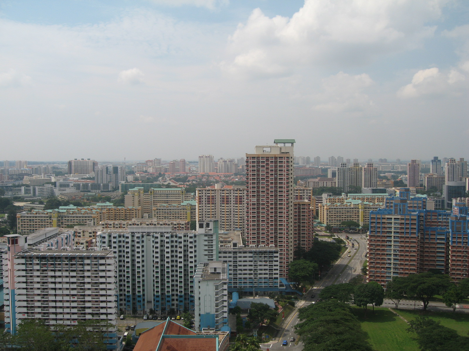 Aerial view of Toa Payoh New Town.